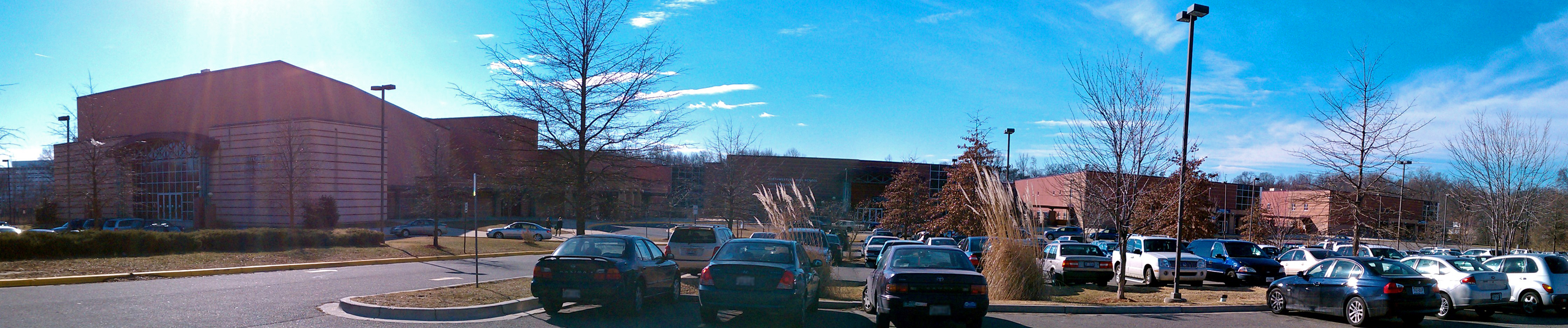 Panorama photo of the Northwestern High School campus in Hyattsville, Maryland.